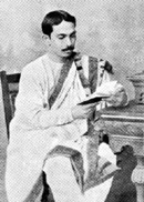 Bengali Poet (12.2.1882 - 25.06.1922).